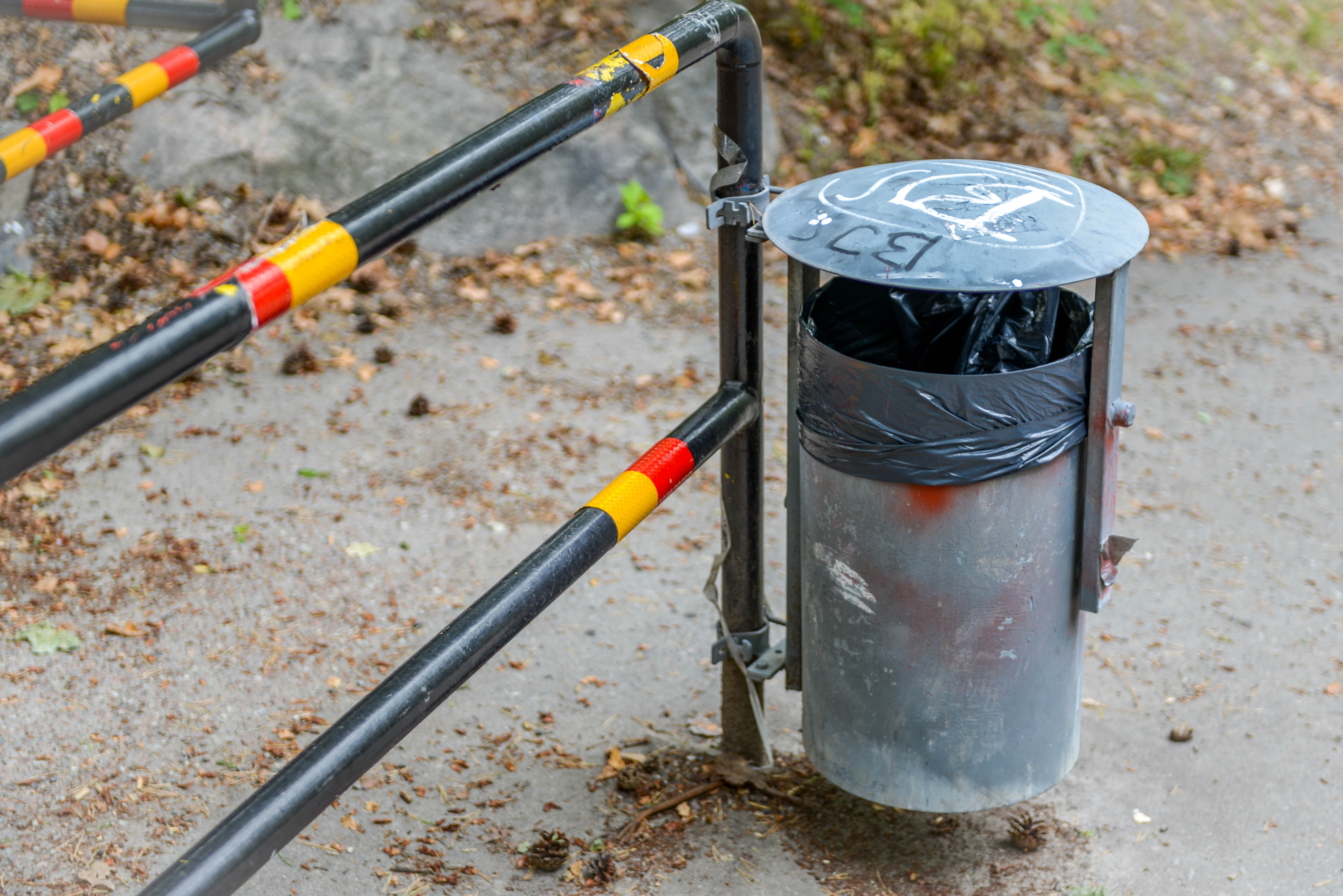 A grey metal garage can wih a black garbge bag inside.